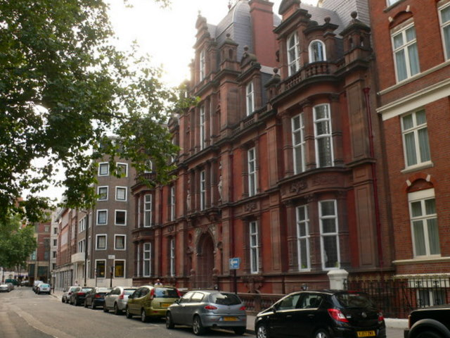 Caxton Hall On the corner of Caxton Street and Palmer Street, Caxton Hall is Grade II listed primarily for its historical associations. It was opened as Westminster Town Hall in 1883 and then was used for a variety of purposes including a concert hall and venue for public meetings, including those by the Suffragette movement. In WWII it was used by the Ministry of Information as a venue for press conferences held by Winston Churchill and his ministers. Also it was used as a registry office until 1979, and many famous people married there including Elizabeth Taylor, Diana Dors, Peter Sellers, George Harrison and Ringo Starr. It is now being redeveloped as apartments and offices.